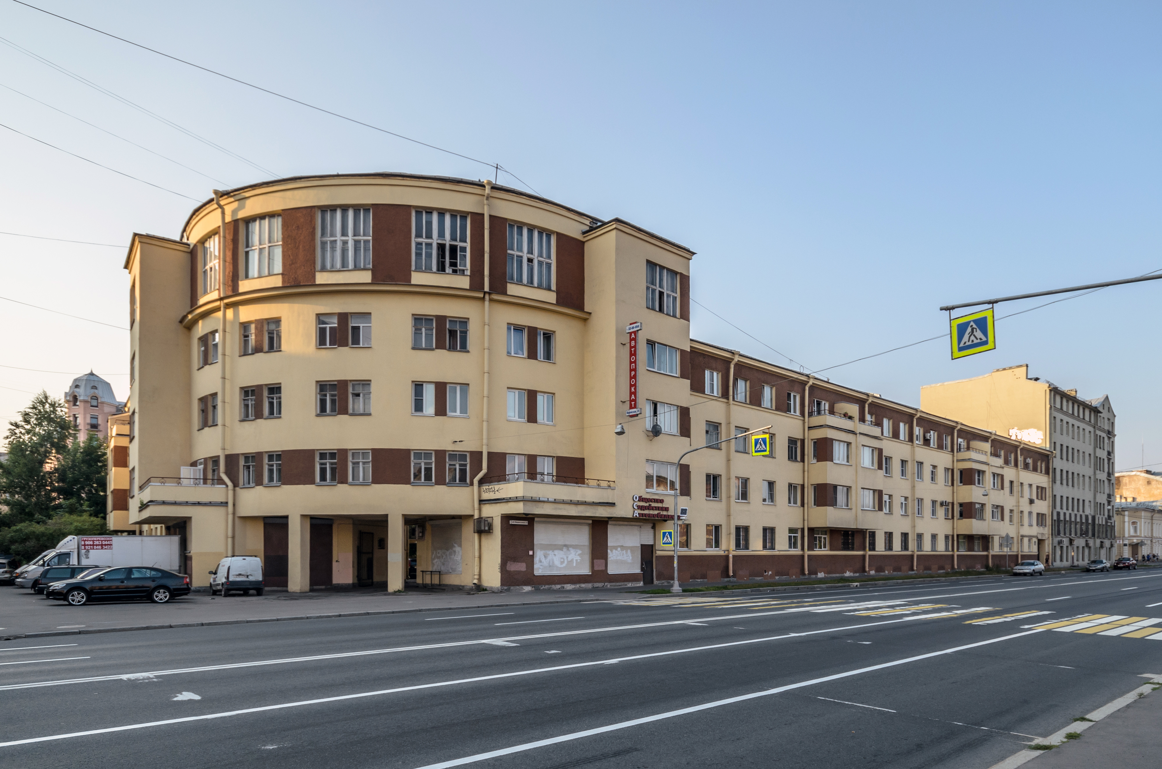 Apartment House at Obvodny Canal in Saint Petersburg